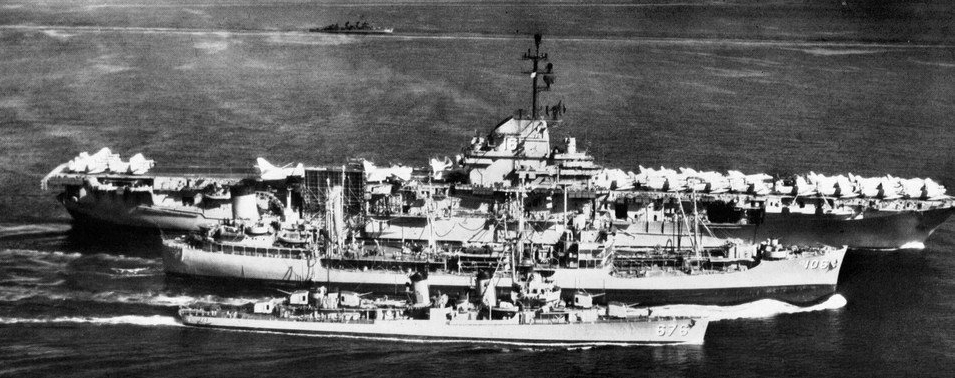 The U.S. Navy fleet oiler USS Navasota (AO-106) refueling the aircraft carrier USS Lexington (CVA-16) and the destroyer USS Marshall (DD-676) in the eastern Philippine Sea during the 1958 Taiwan Strait Crisis. Lexington, with assigned Carrier Air Group 21 (CVG-21), was deployed to the Western Pacific from 14 July to 19 December 1958.